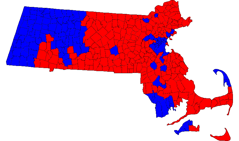 Results of the Massachusetts gubernatorial election, 2002 by municipality. Red indicates towns that voted for Romney, blue for O'Brien.